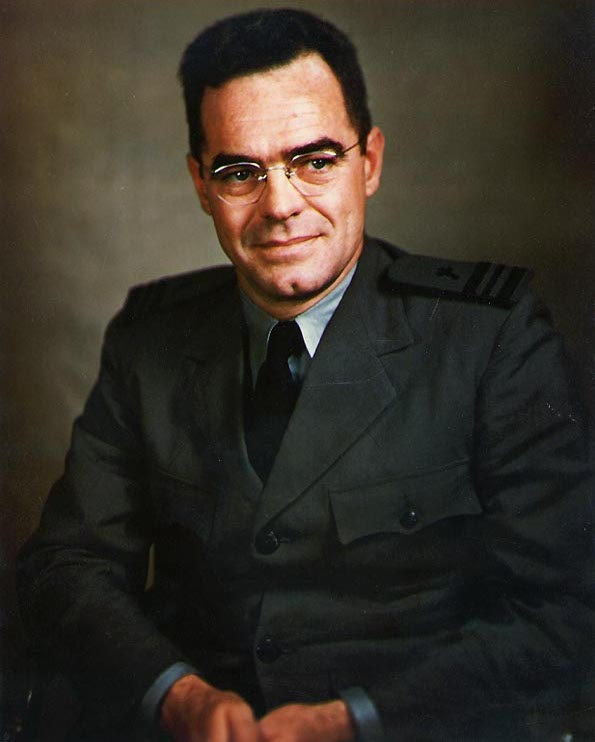 Lieutenant Commander Joseph T. O'Callahan, USNR(ChC) photographed wearing the Service Dress Grey uniform, circa April-July 1945. He was awarded the Medal of Honor for heroism on board USS Franklin (CV-13) when she was badly damaged on 19 March 1945.